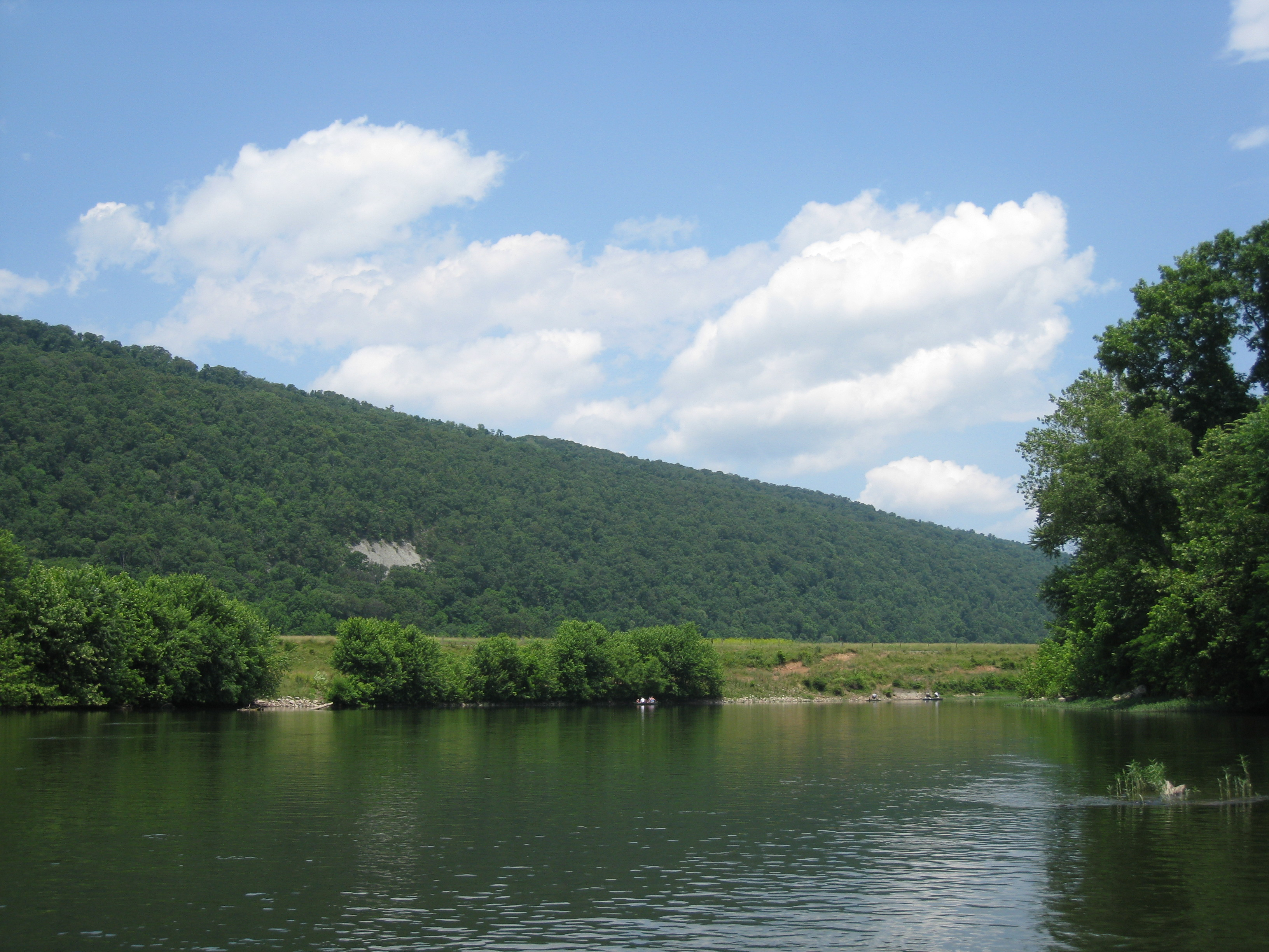 South Branch Potomac River near Romney Bridge, Romney, West Virginia, United States.